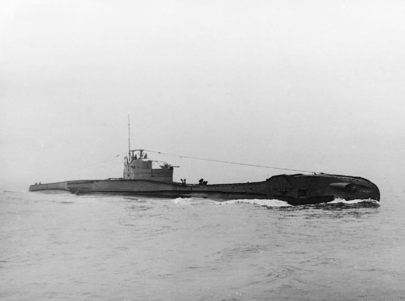 British T class submarine HMSM TEMPEST underway.